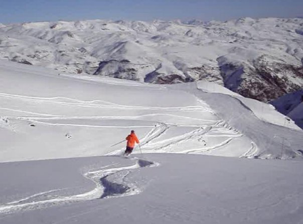 A powder day on Valle Nevado. The is Ski Resort it is surrounded by the "Cordillera de los Andes"